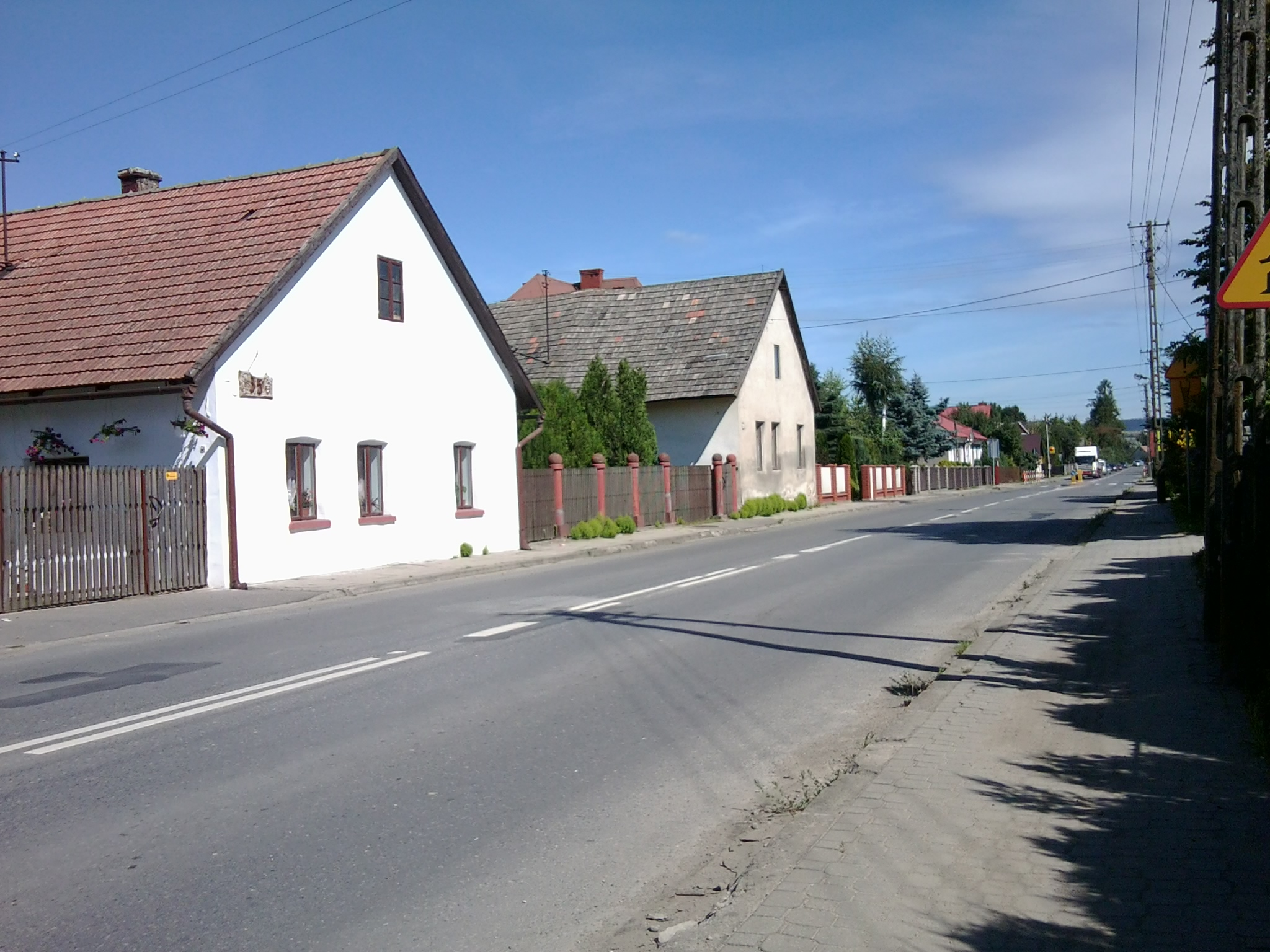 German type buildings in Stadła - summit for the road